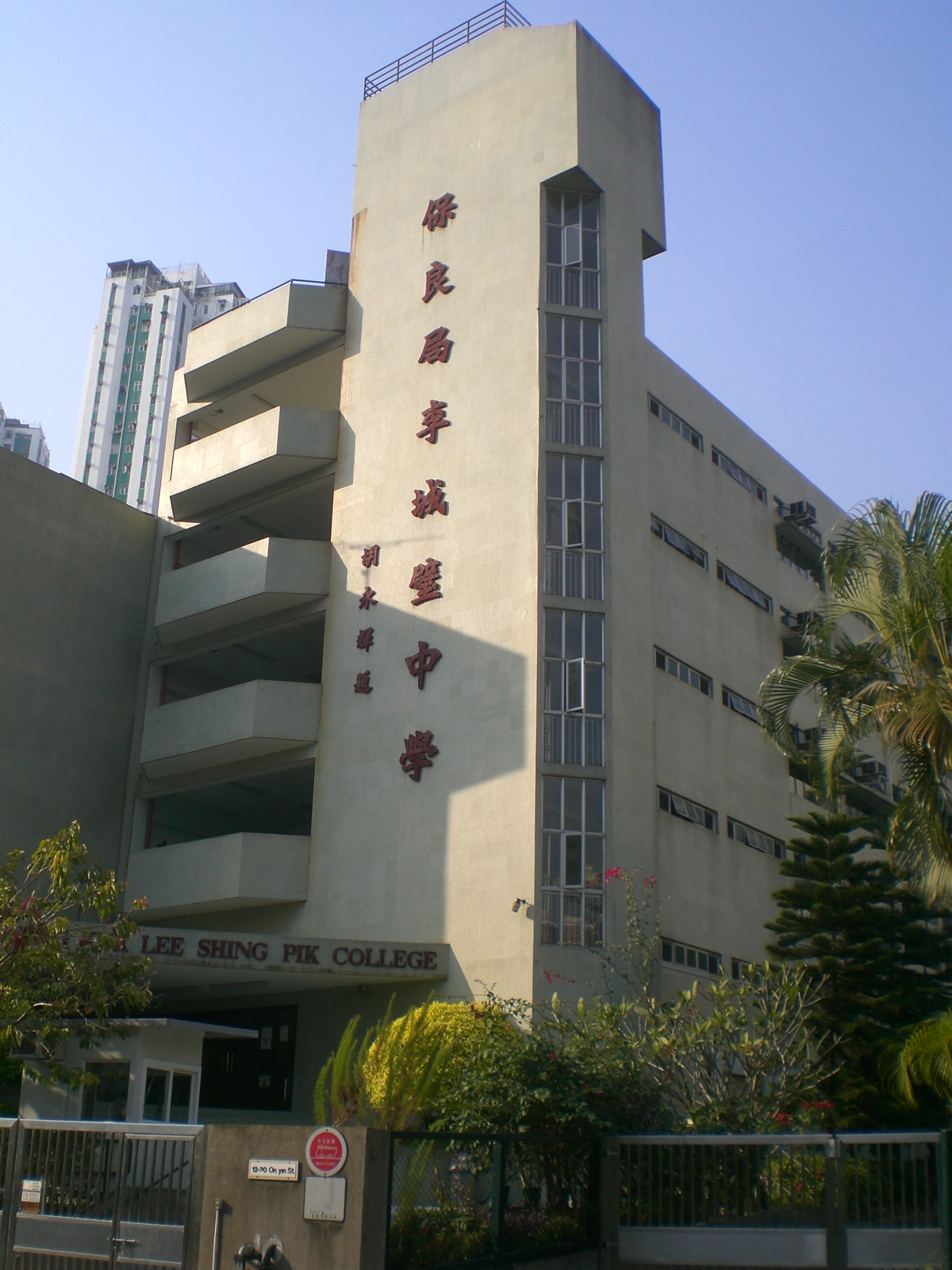 荃灣 柴灣角 安賢街 保良局李城璧中學